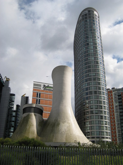 Blackwall Tunnel ventilation shafts & the Ontario Tower The ventilation shafts serve the newer southbound bore of the tunnel which was opened in 1967. They were designed by the architect Terry Farrell and were Grade II listed in 2000. The Ontario Tower is on the New Providence Wharf development and was completed in 2007. It has 260 residential flats and 169 hotel rooms arranged over 32 floors and is about 104 metres high. This view was taken from Blackwall Way.